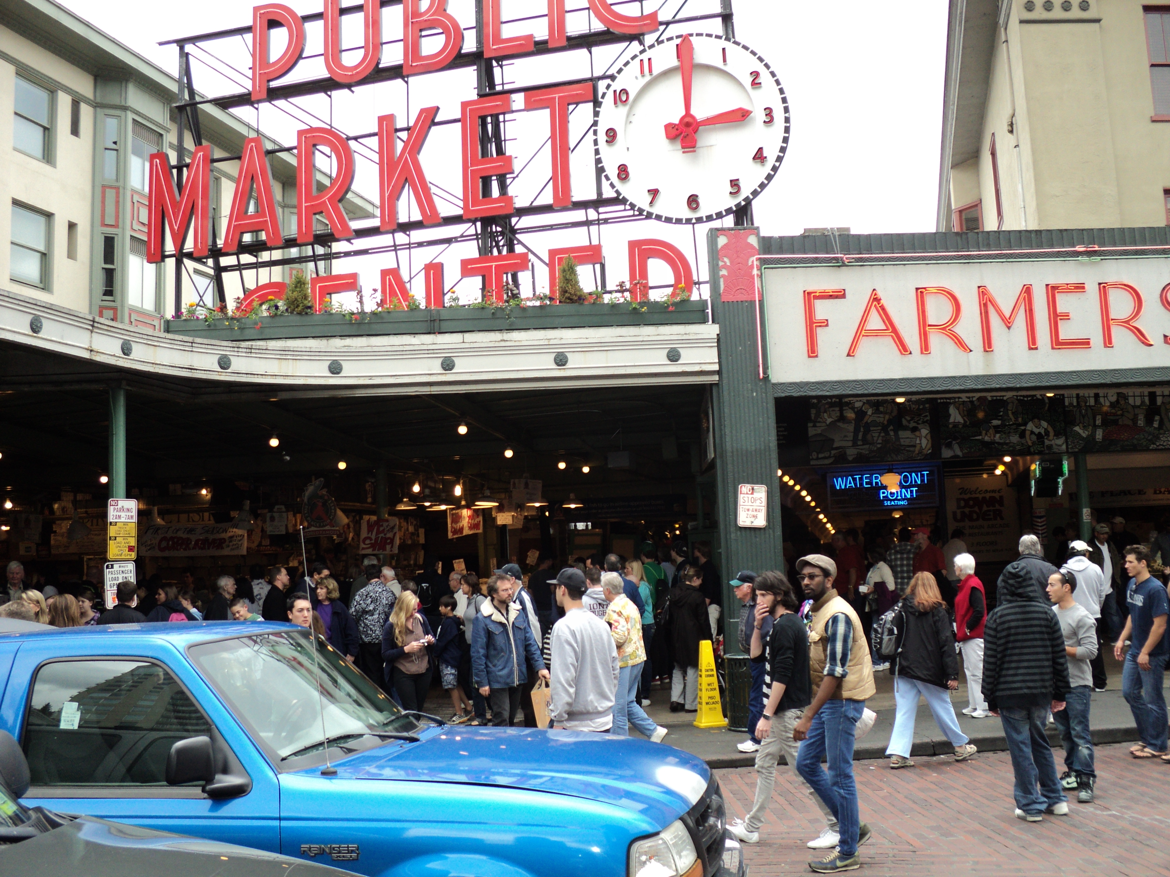 View of the sign for the Pike Place Market, downtown Seattle, Seattle, Washington.